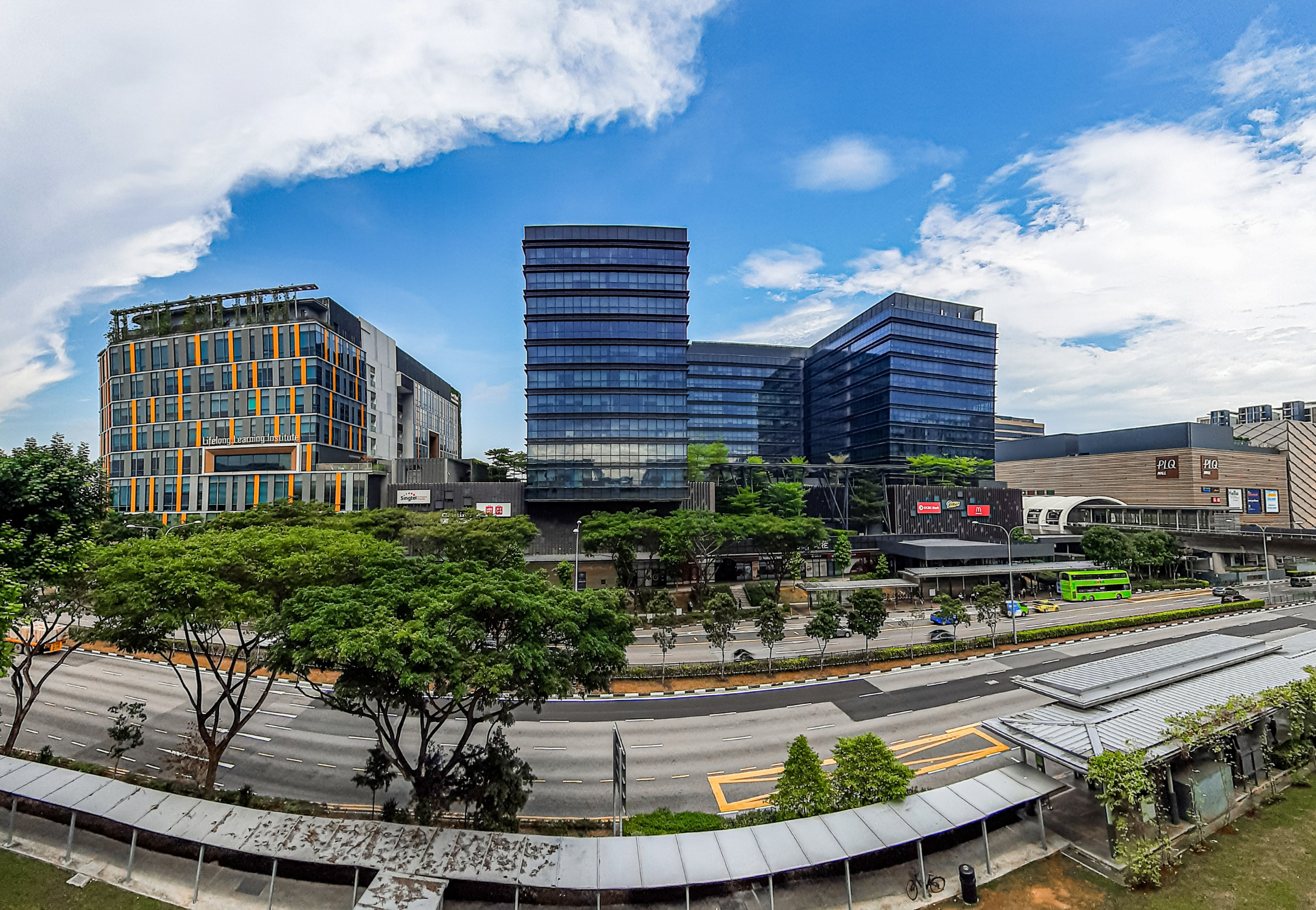 Photo of Paya Lebar Road with Lifelong Learning Institute, Paya Lebar Square and PLQ Mall taken in the background. Taken from Blk 1016 Geylang Ave 3